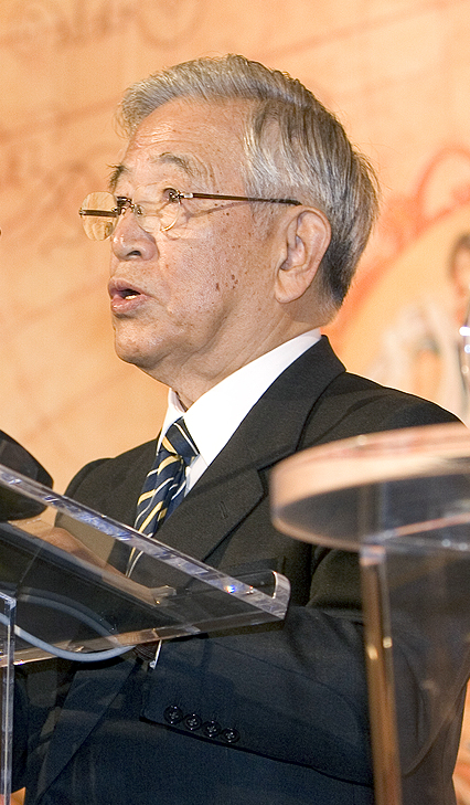 Shōichirō Toyoda, Honorary Chairman of the Toyota Motor Corporation, won the Woodrow Wilson Awards in 2006. The dinner party for Toyoda was held in Tōkyō Metropolis on April 2007.